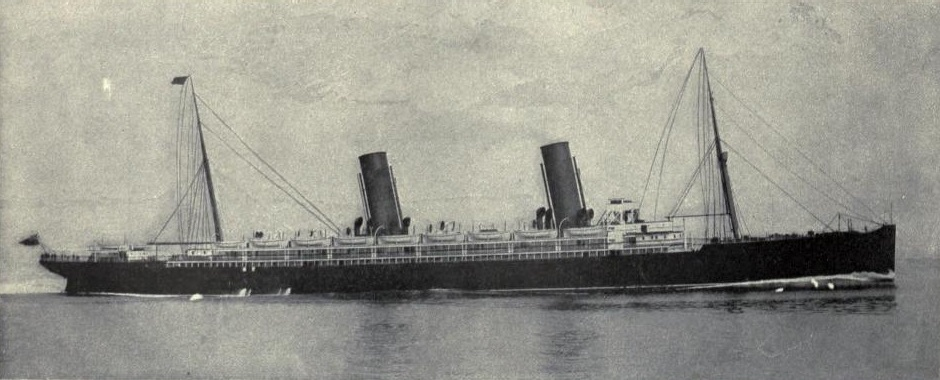 The ship named Campania was a British ocean liner owned by the Cunard Steamship Line Shipping Company, with registry from Liverpool (1893).